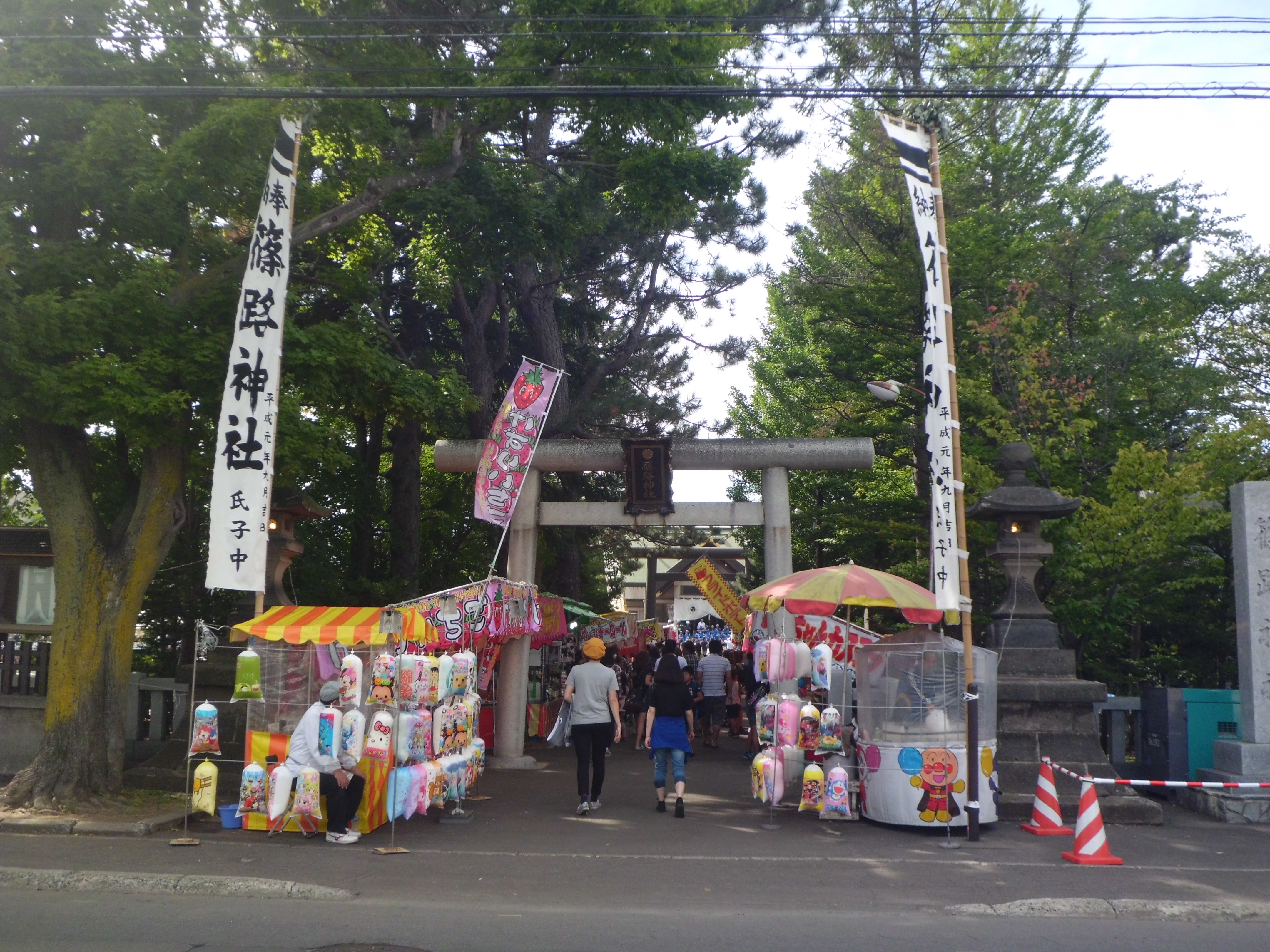 Shinoro Shrine Festival 2015